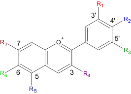 Anthocyane